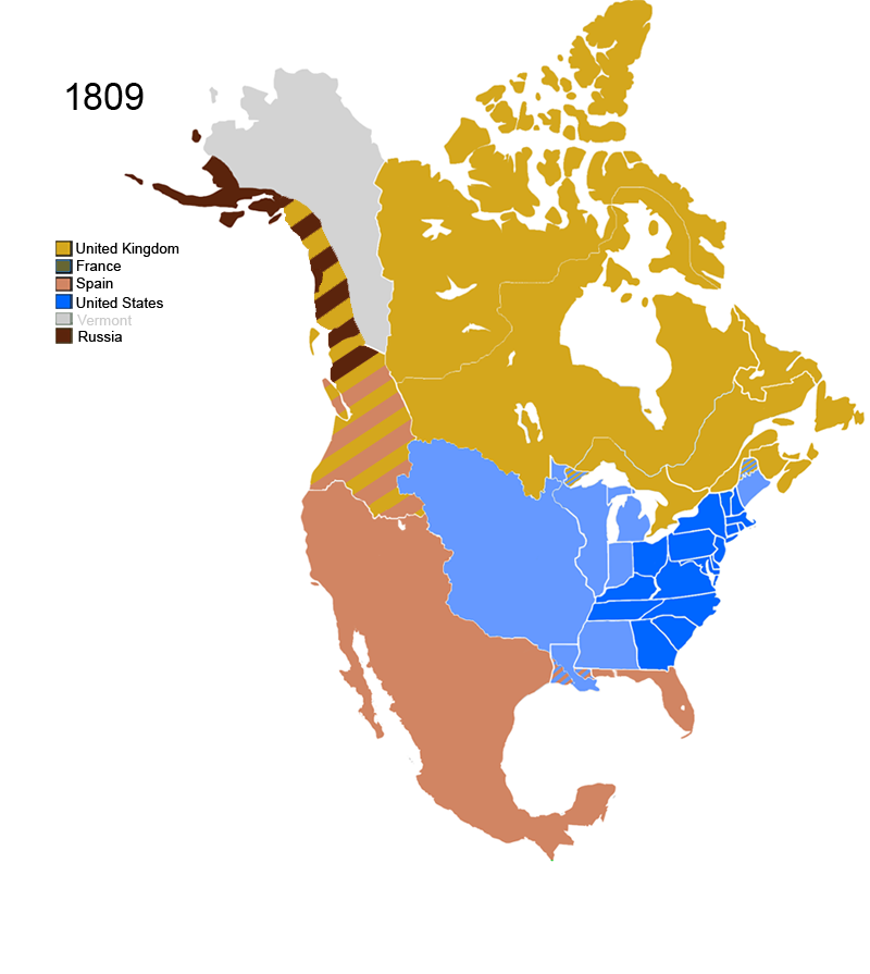 Non-Native Nations claims over areas in North America